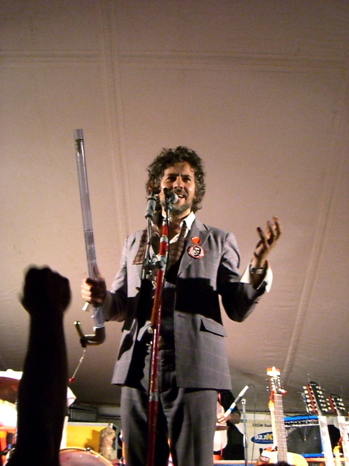 Wayne Coyne, lead singer of the United States indie band The Flaming Lips at Fox and Hound.